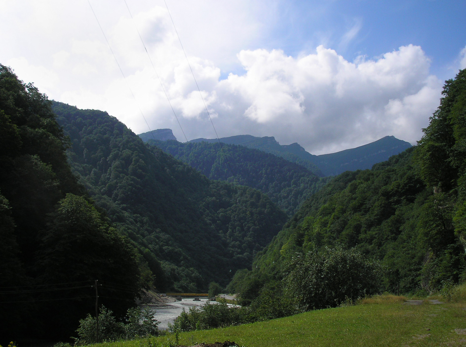 Alagir Canyon, North Ossetia, Russia.